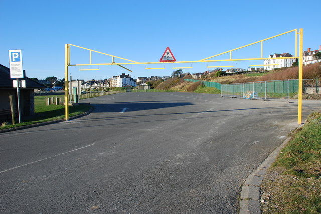 Mynedfa i Faes Parcio Cricieth Car Park Entrance. After the promenade carpark was taken over by travellers' caravans for the third time last summer, the council finally erected height barriers. I suspect they are also aimed at keeping out tourists' camper vans, which annoy the local hoteliers. See 840128